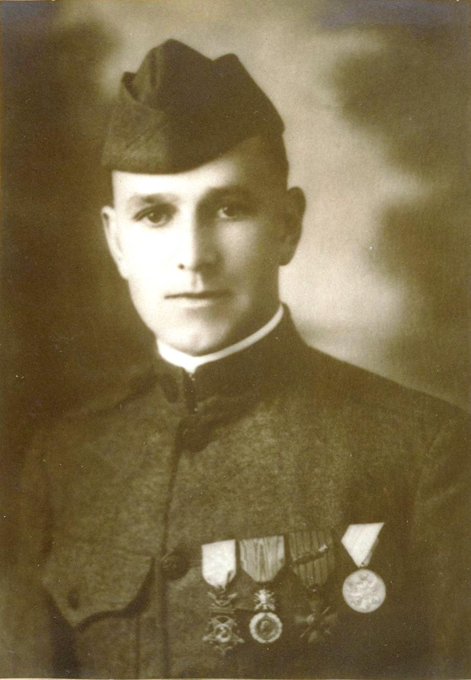 WWI Medal of Honor recipient Phillip C. Katz. He wears the Medal of Honor, the French Médaille militaire, the French Croix de guerre with palm and the Montenegrin Medal for Military Bravery.